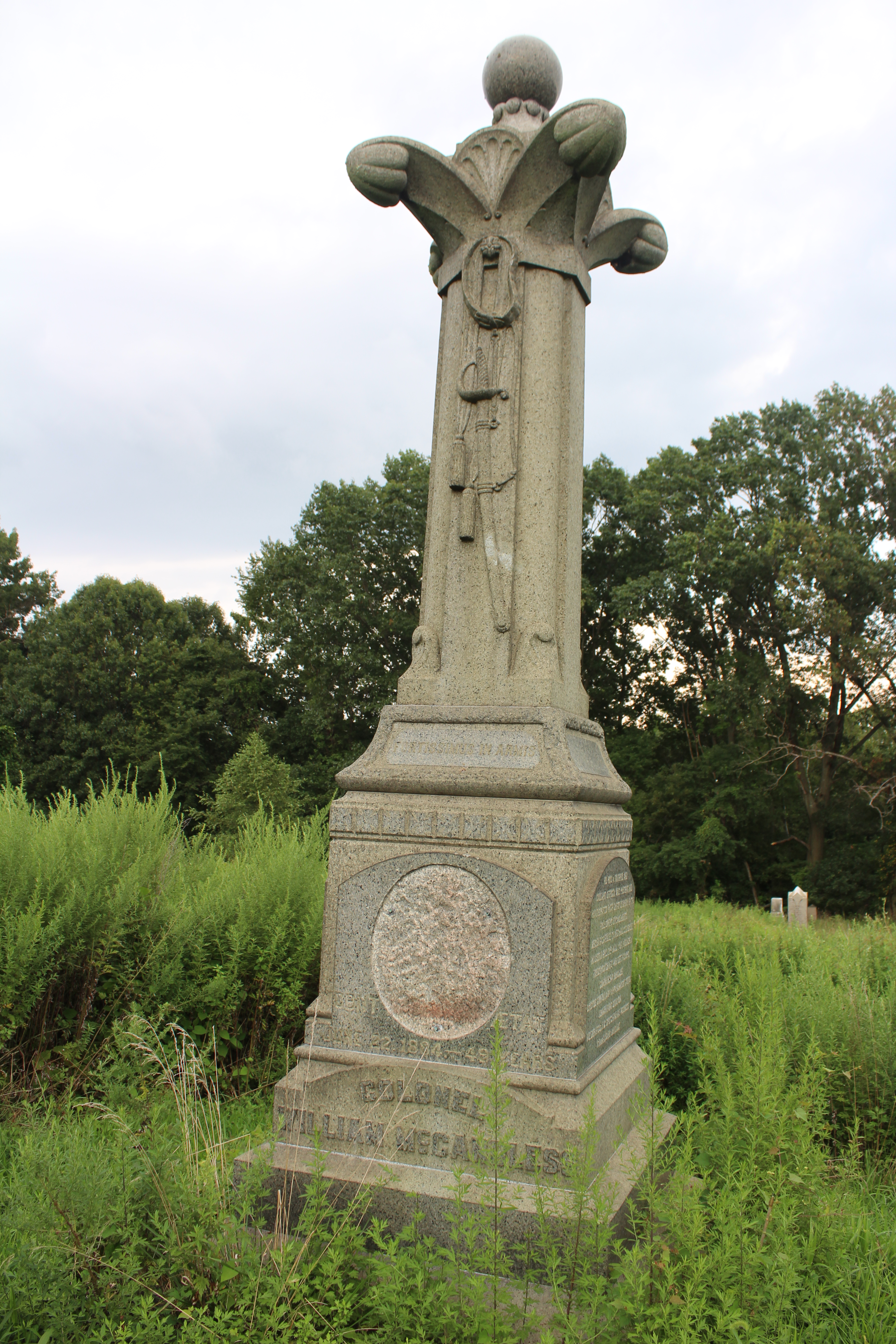 William McCandless Memorial in Mount Moriah Cemetery in Philadelphia, Pennsylvania. Photo taken August 2019.